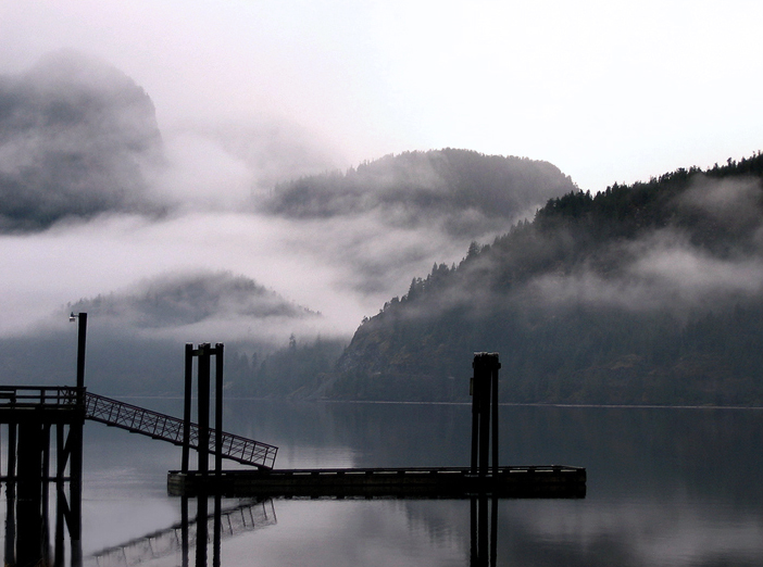 a dock in Zeballos, British Columbia